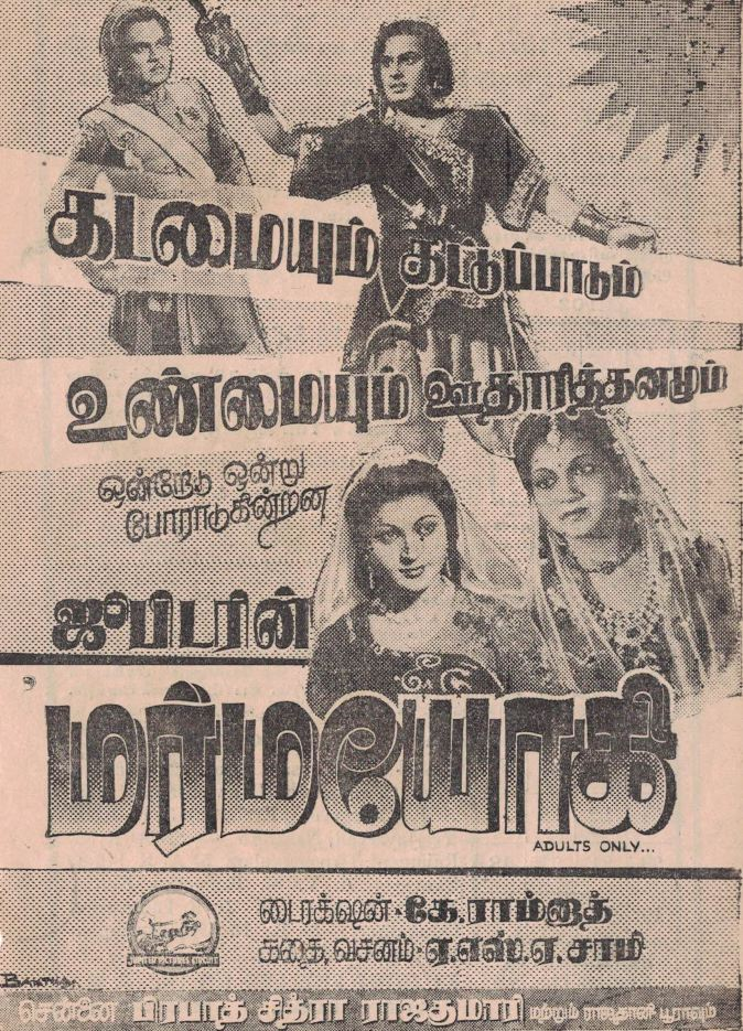 Poster for the 1951 South Indian Tamil film Marmayogi